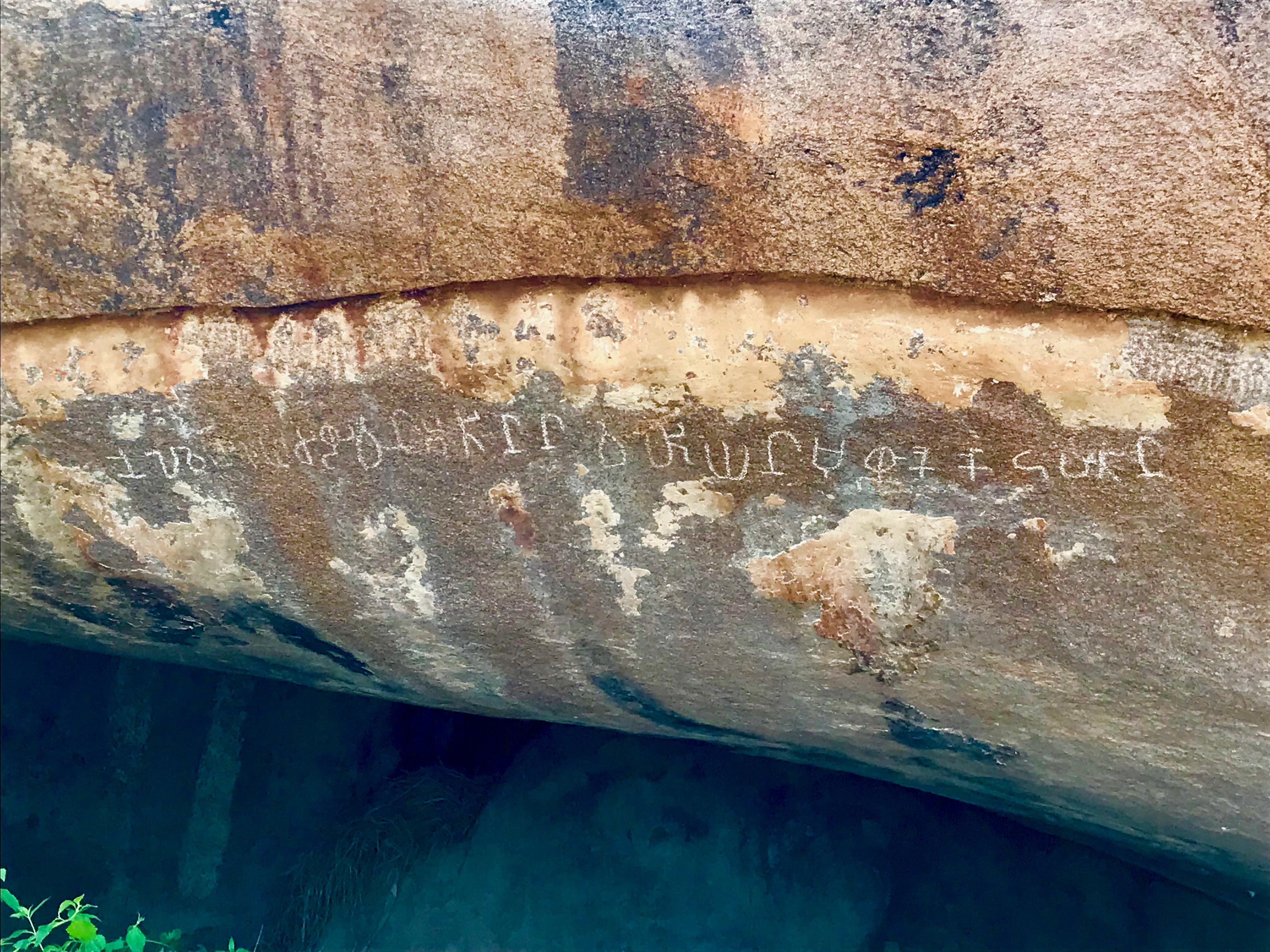 Arittapatti is also called Aritapatti or Pancha Pandava Padukkai from the Mahabharata legends. Arittapatti is a village set near a rocky hill about 25 kilometers northeast of Madurai. It has one of the oldest known Tamil Brahmi inscriptions, as well the oldest known Shaivism-related Lakulisha iconography in Tamil Nadu and Jain monuments. The above Tamil Brahmi inscription is dated to about the 2nd-century BCE. It is located near the Jain tirthankara relief with Vatteluttu script inscription. Since this rounded script emerged and came into use in and after 6th-century, the tirthankara relief was likely carved into the rock about 800 or 900 years later. This, along with the 7th-century rock-cut Shiva temple on the western side of same rocky hills in the same village (but a long walk) attests to the use of this site in ancient Tamil lands for centuries. For further discussion of the Tamil Brahmi inscription, please see K. V. Raman and Y. Subbarayalu (1971), A new Tamil-Brahmi Inscription in Arittapatti, Journal of Indian History, Volume XLIX, pp. 229-232